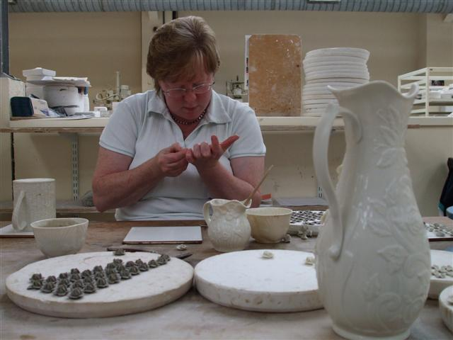 Craftsperson, Belleek Pottery She is making rose petals, petals and shamrocks by hand